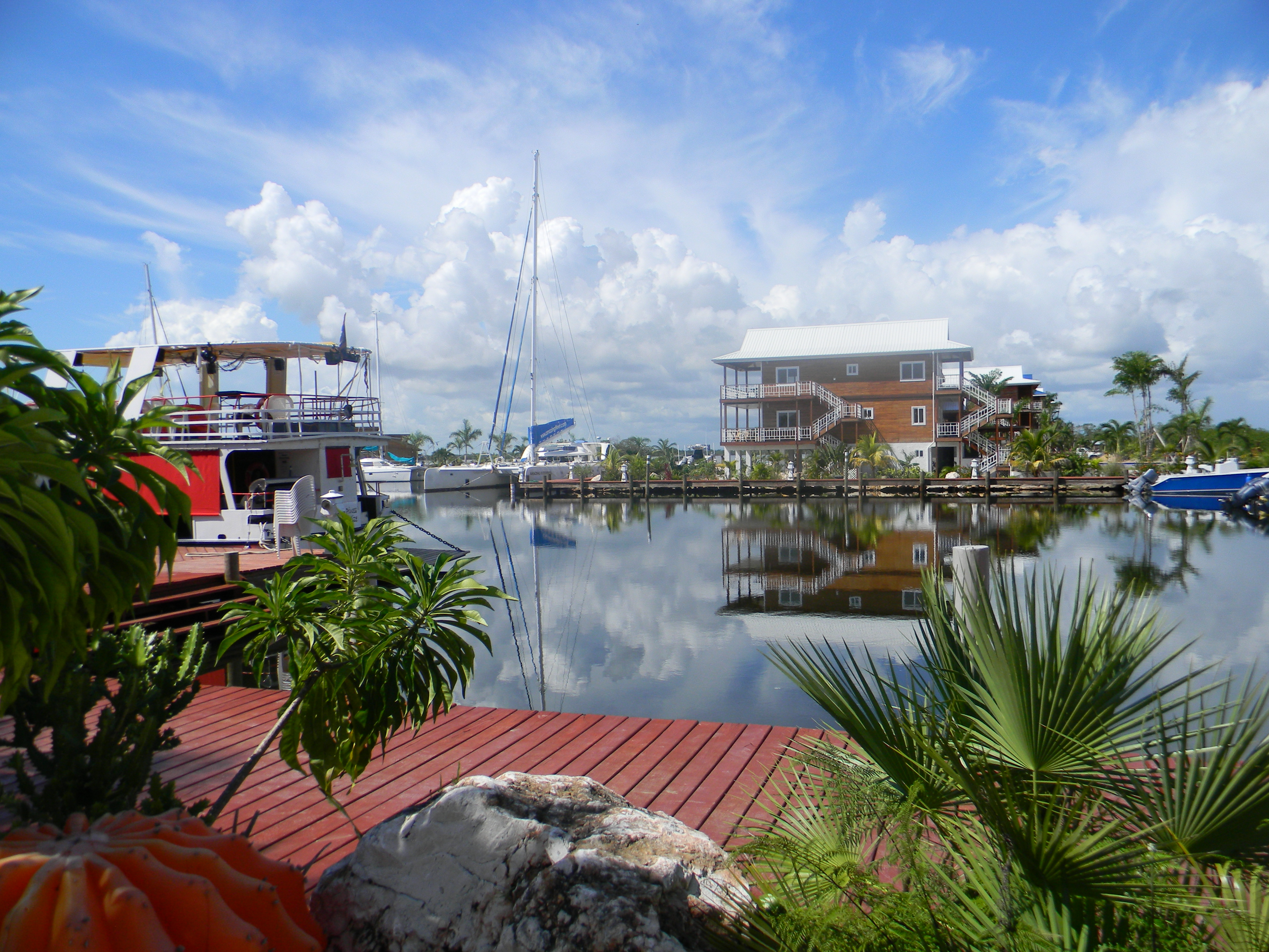 Yacht marine in Belize